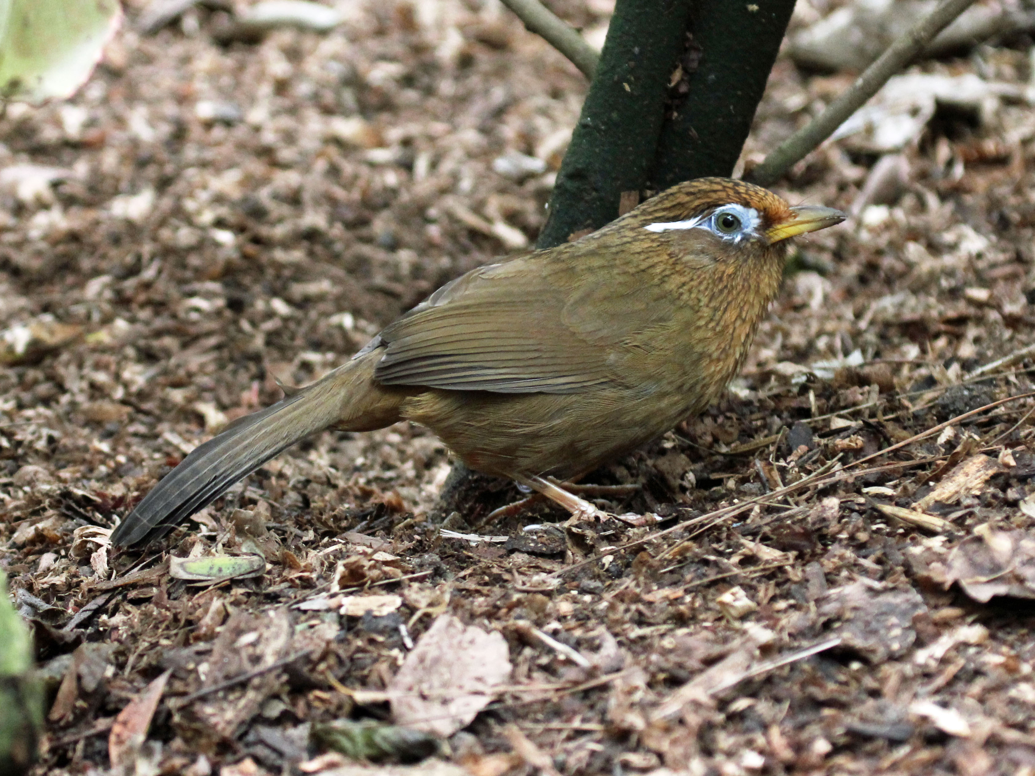 Chinese Hwamei (Leucodioptron canorum) - San Diego Zoo